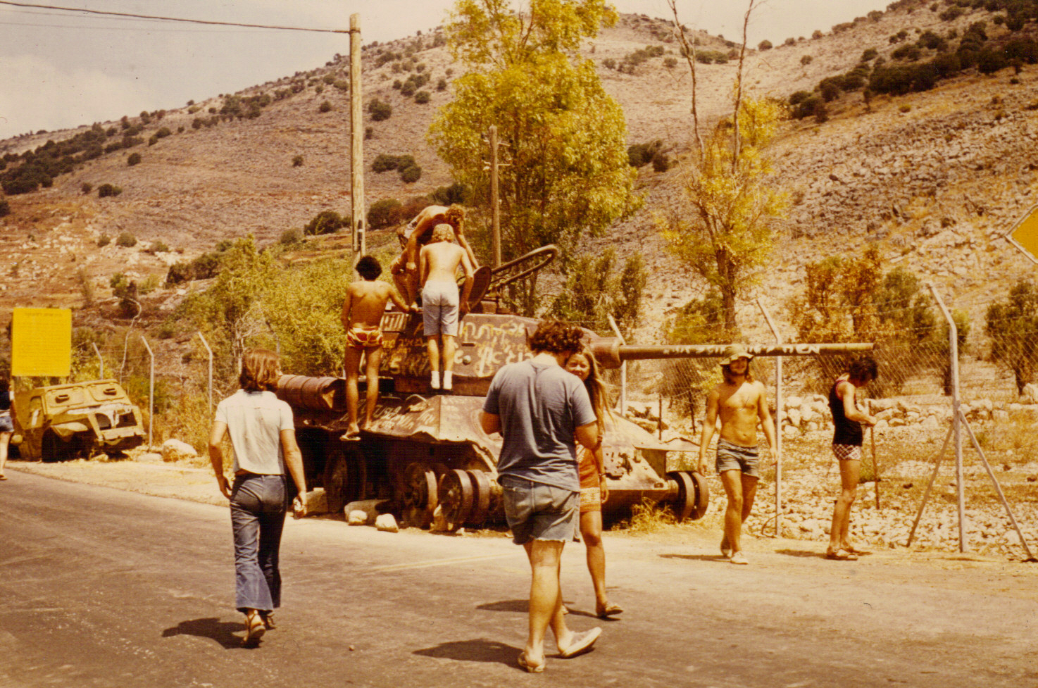 Austrian Kibbutz volunteers at Ein Hashofet are shown relics of Golan battle (1967) in summer of 1973Copy from my picture album